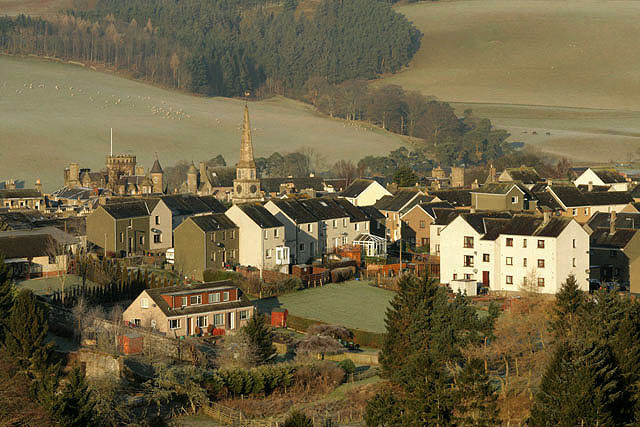 Selkirk town centre Viewed in late December from the hillside to the east of Haining Loch.